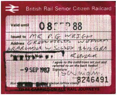 Pre-APTIS Senior Citizens Railcard (standard version). Scanned from my own collection.